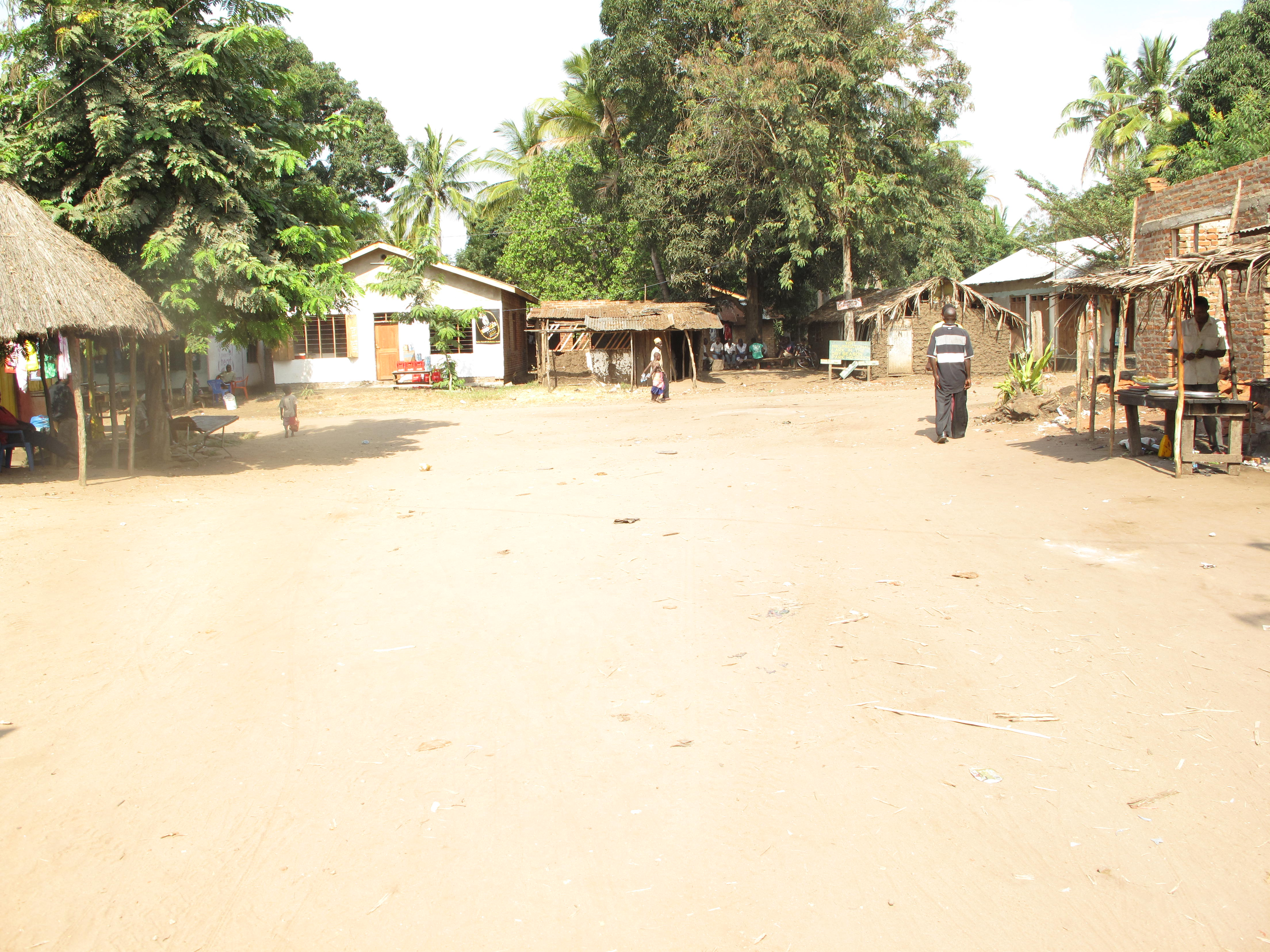 Kisaki in Tanzania